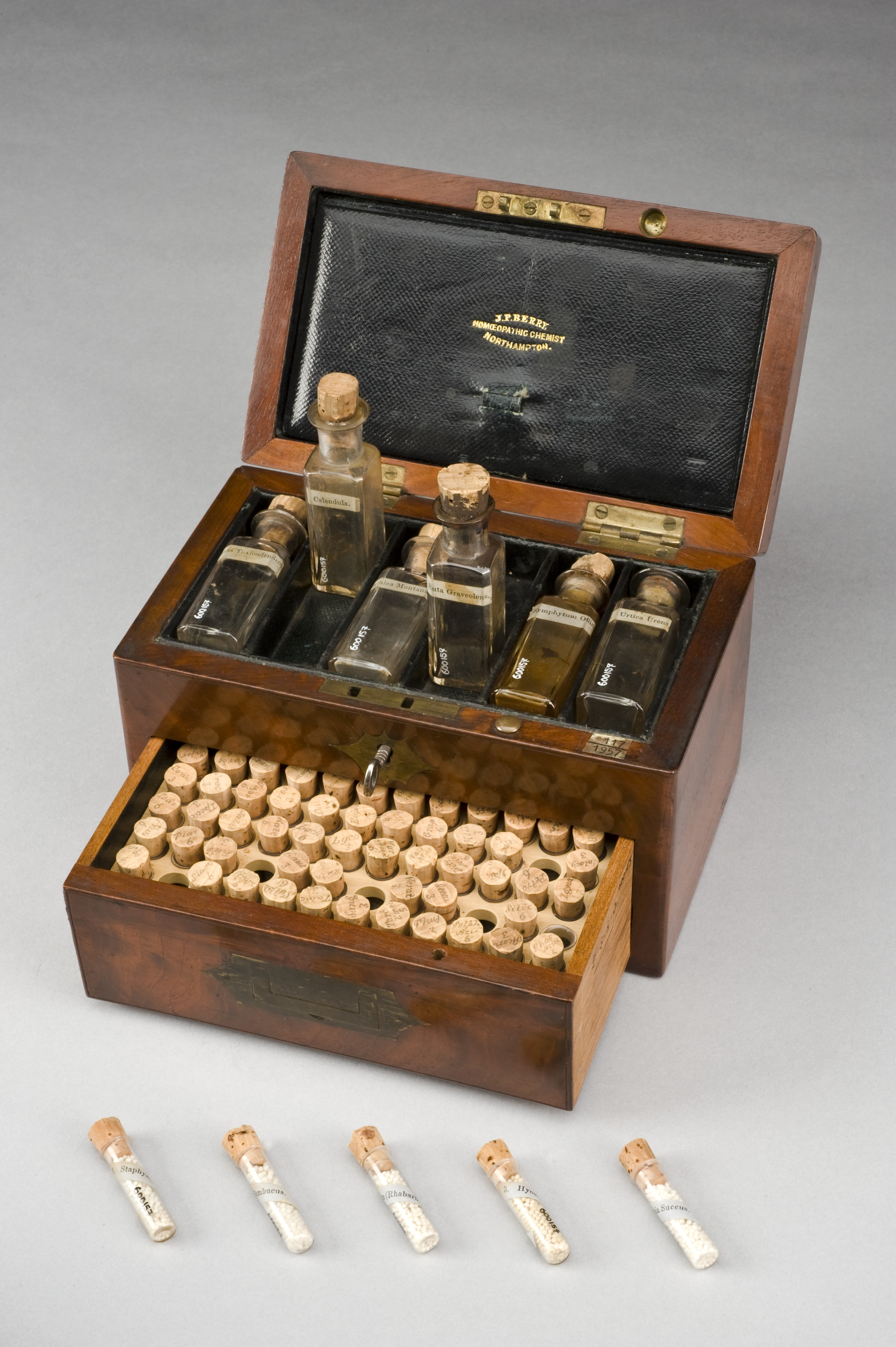 This mahogany medicine chest contains 69 small glass vials with handwritten labels and six large bottles. Homeopathy relies on the idea that ‘like cures like’. For instance, if you are vomiting, your treatment will be something that causes vomiting but in a smaller, much diluted dose. One of the large bottles is labelled “Urtica urens”. This treatment is made from a dwarf stinging nettle and is used on burns and skin irritations, the same effect the plant has on the body. maker: Berry, J P Place made: Northampton, Northamptonshire, England, United Kingdom Wellcome Images Keywords: medicine chest; Homeopathy